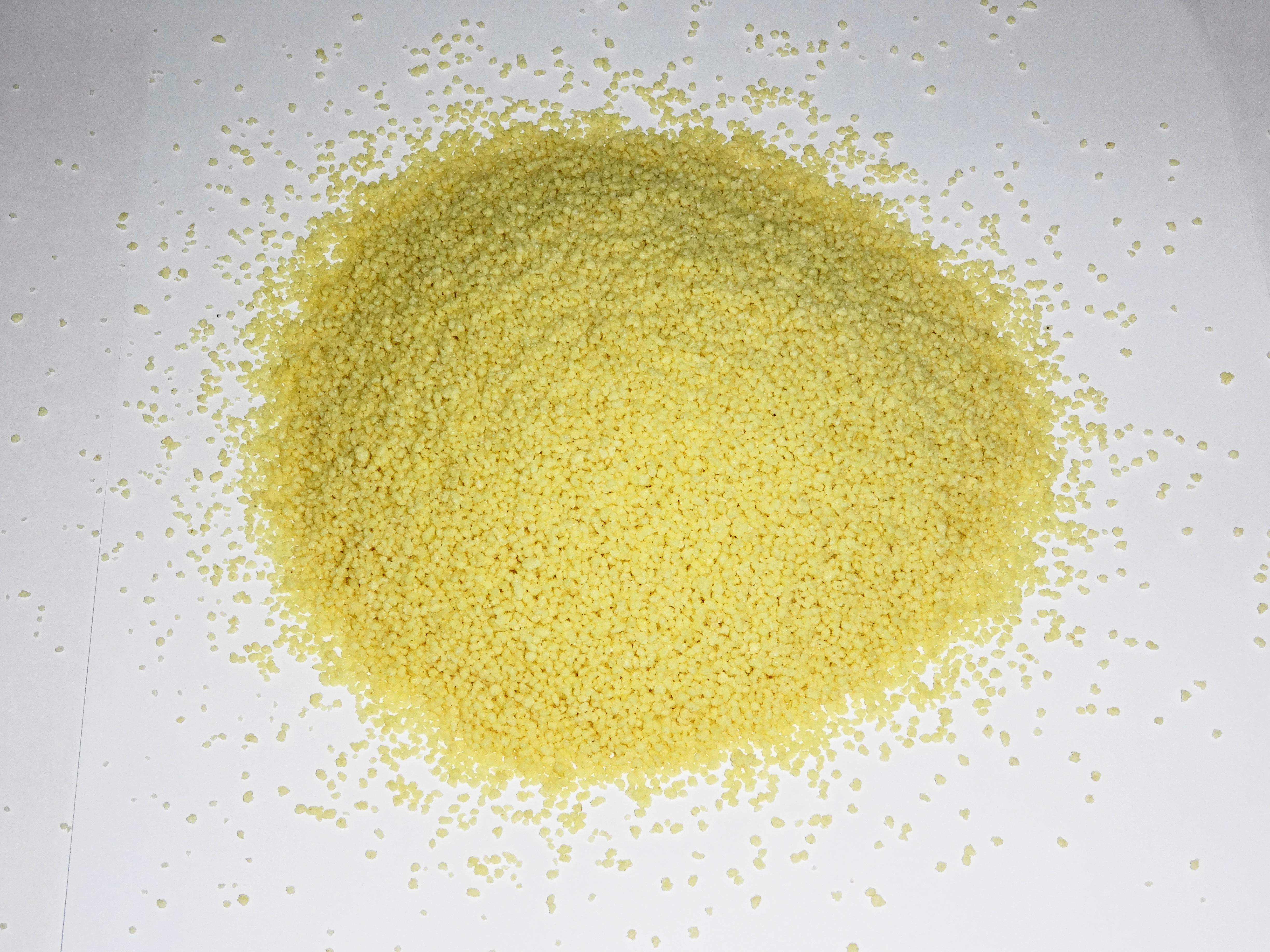 Couscous